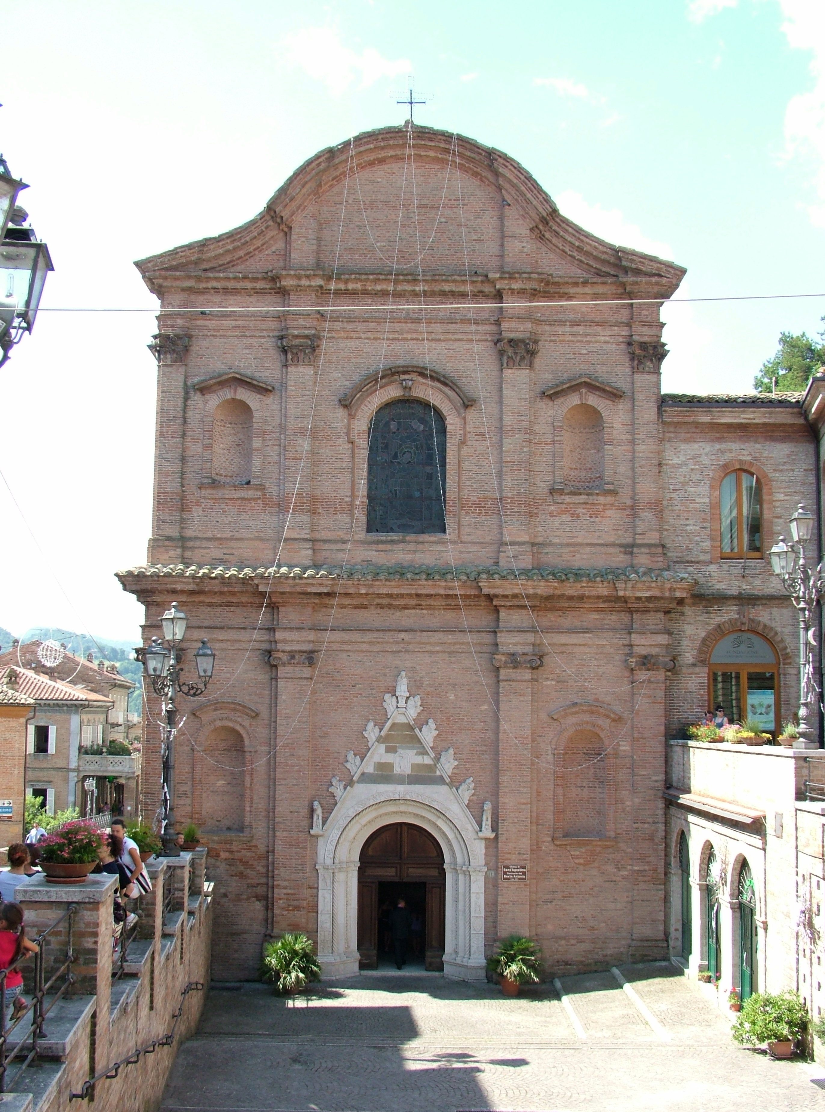 Church of Sant' Agostino and sanctuary of the Blessed Antonio Amandola (FM)